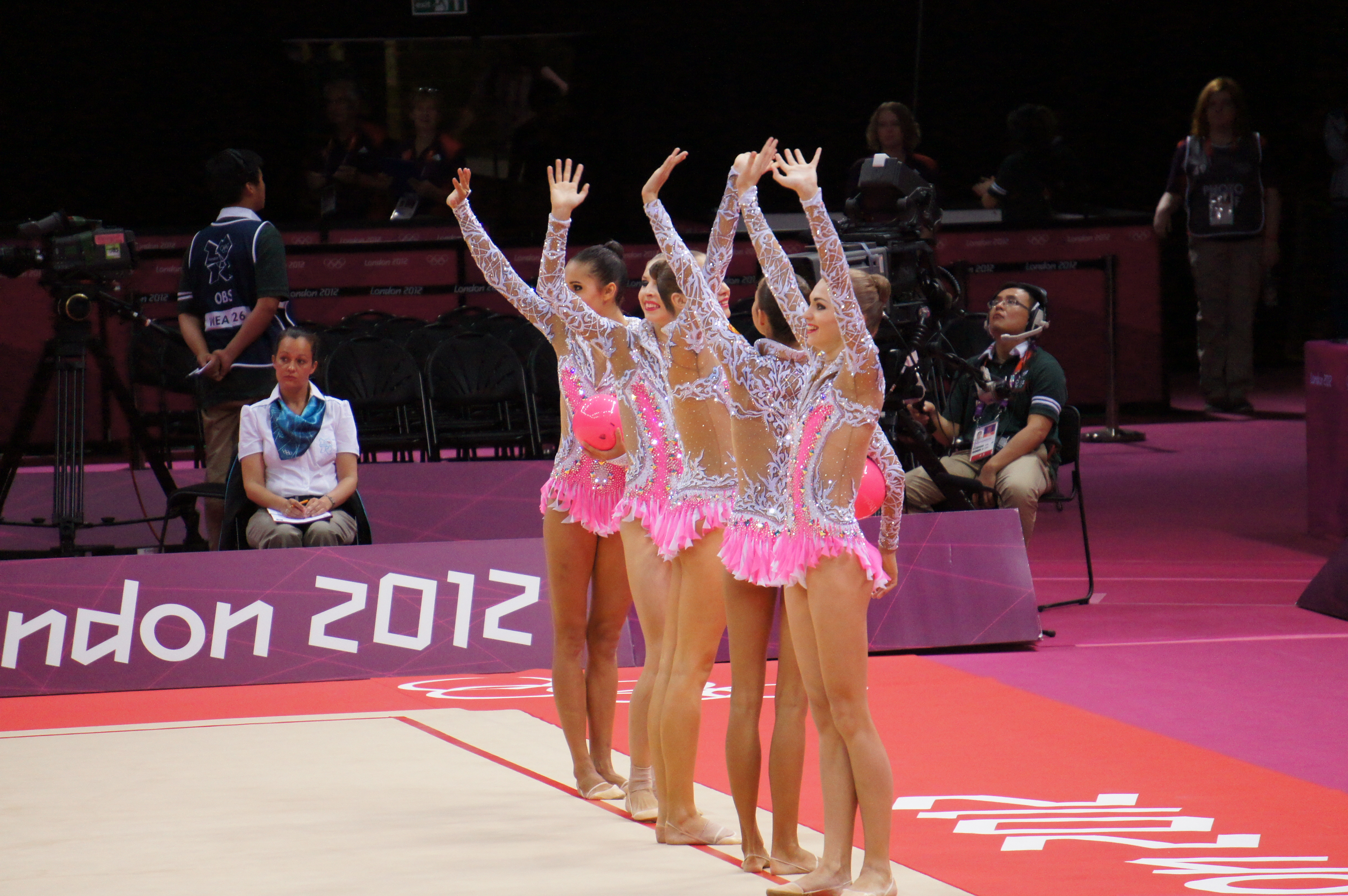 Russian rhythmic gymnastics team at the 2012 Summer Olympics